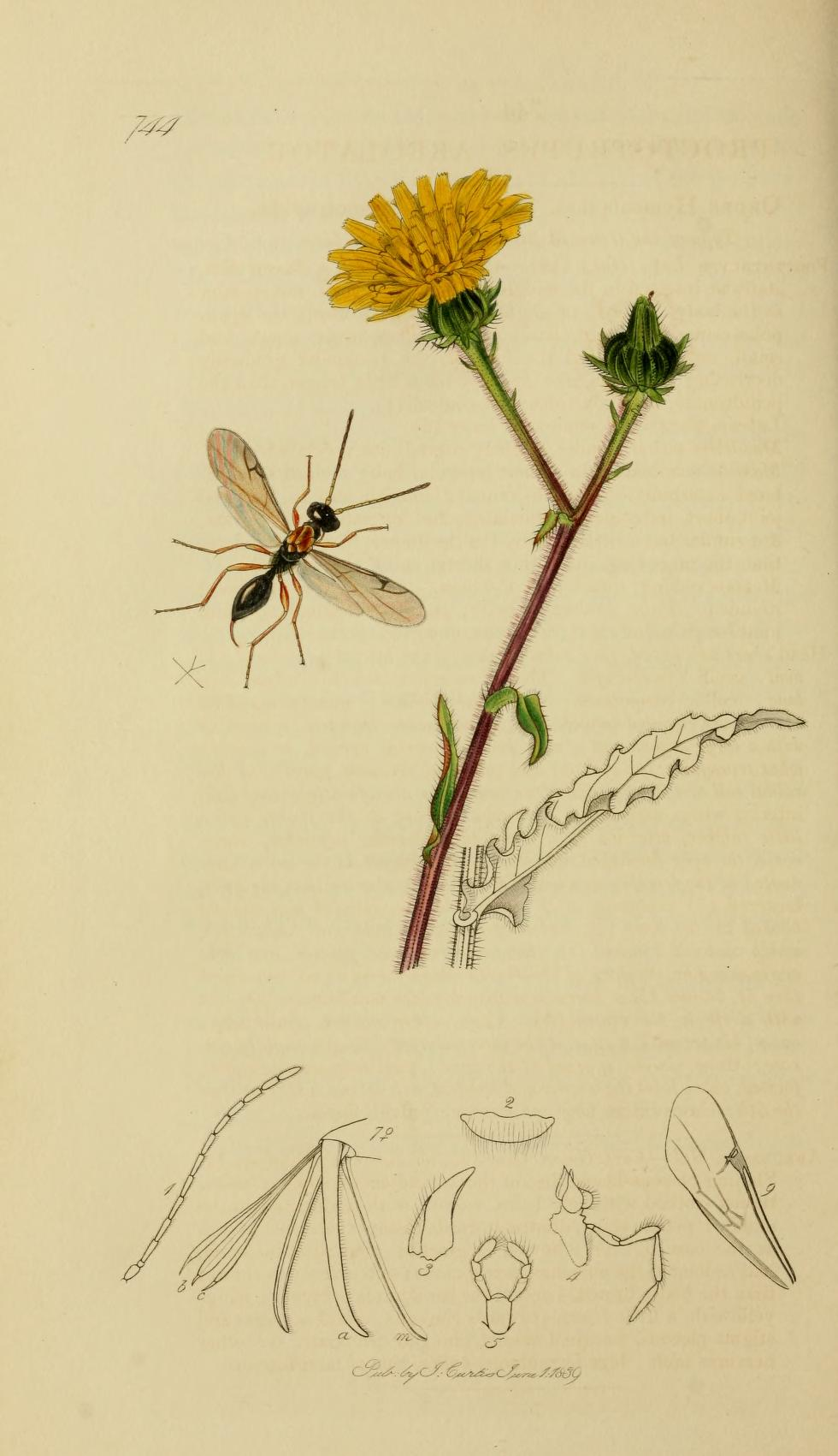 An illustration from British Entomology by John Curtis.Proctotrupes areolator Synonym of Disogmus areolator Valid name